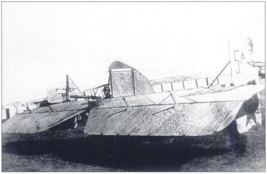 A close-up of a Sikorsky S-25 Geh-2 two-tail gunner's station shows one of the Red Air Force aircraft, judged by the Communist red star on the rudder (far right).